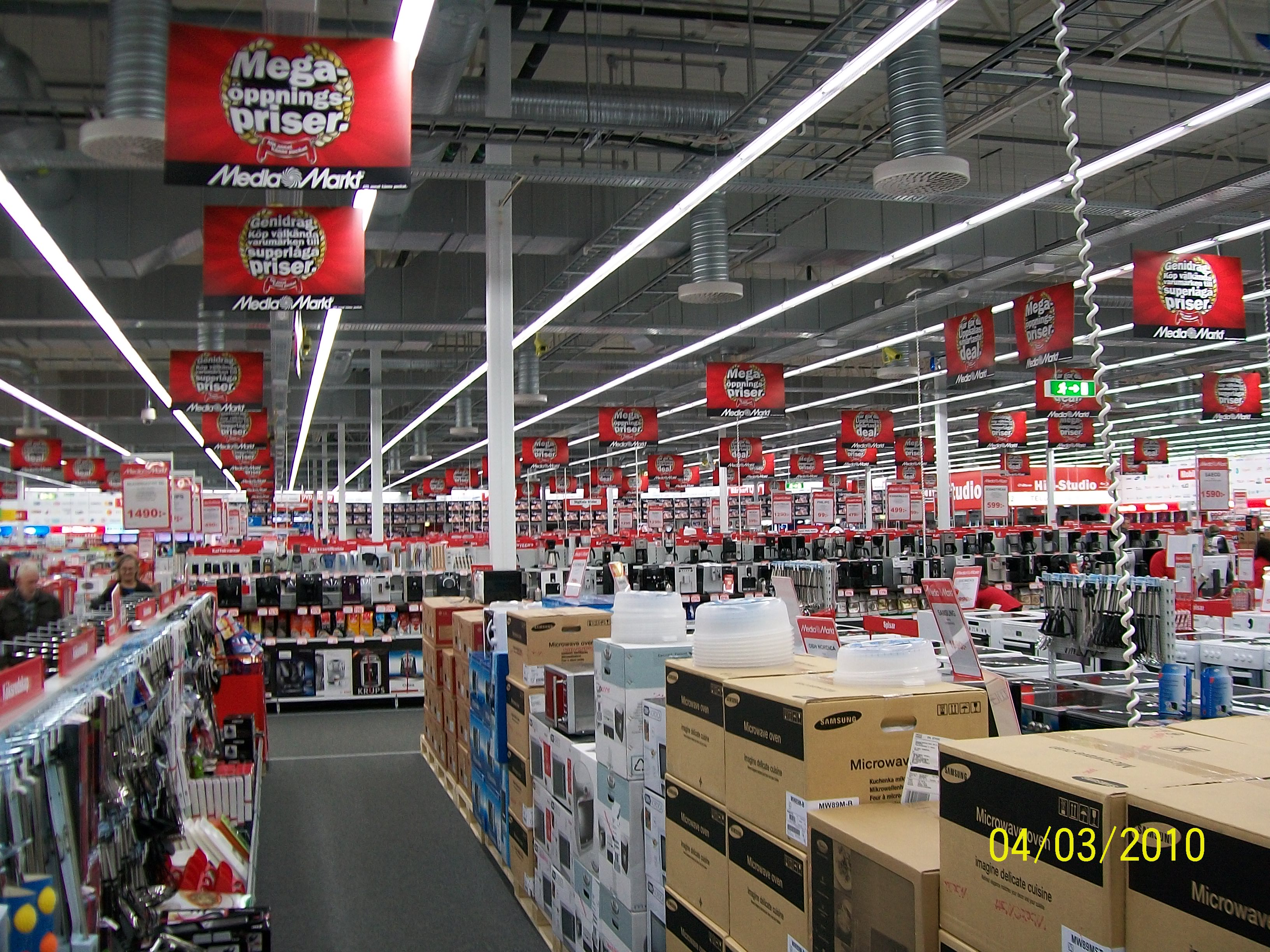 Inside Media Markts store in Uppsala, Sweden.